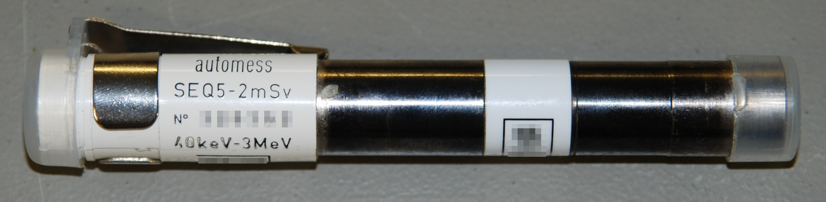 Direct-reading dosimeter